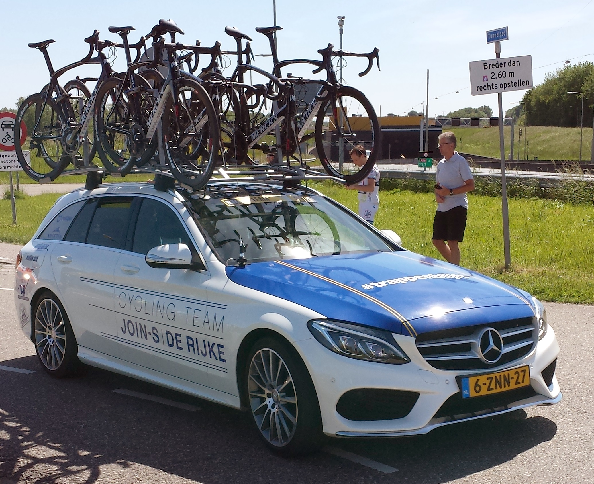 Joins De Rijke car at the World Ports Classic 2015